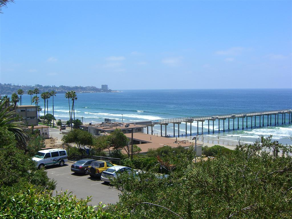 Scripps Institution of Oceanography I took this photo while taking a break from work at Scripps.